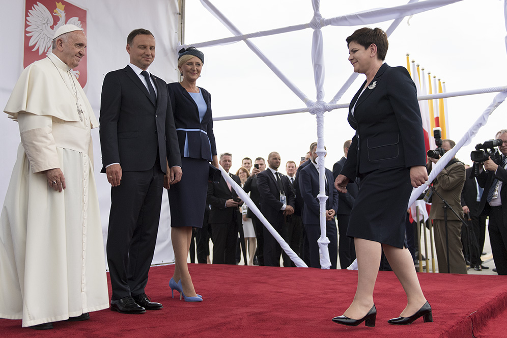 27.07.2016, Kraków | Premier Beata Szydło wraz z polskim władzami przywitała Ojca Świętego w Krakowie. fot. P. Tracz/KPRM